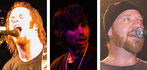 The core members of American heavy metal band CKY: Deron Miller, Chad I Ginsburg and Jess Margera. Derivative work of other files uploaded under Creative Commons licences allowing remix.